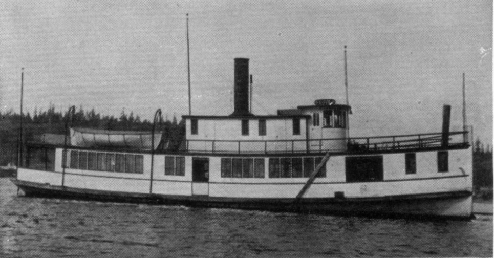 Puget Sound steamboat Dove, previously served on Columbia River under the name Typhoon, later worked on Willapa Bay as a tug.